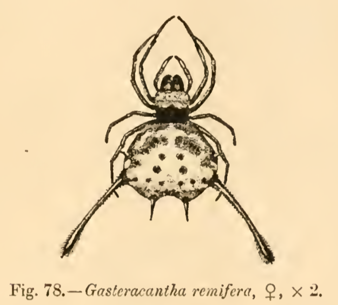 Gasteracantha remifera (illustrated by R.I. Pocock, 1900)